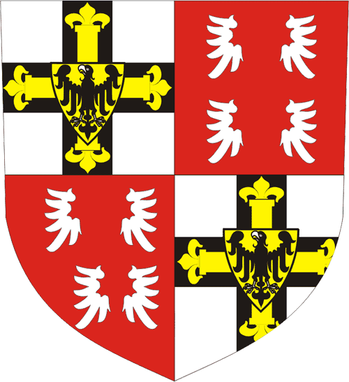 Teutonic Order - Coat of Arms of the Grandmaster Johann von Tiefen